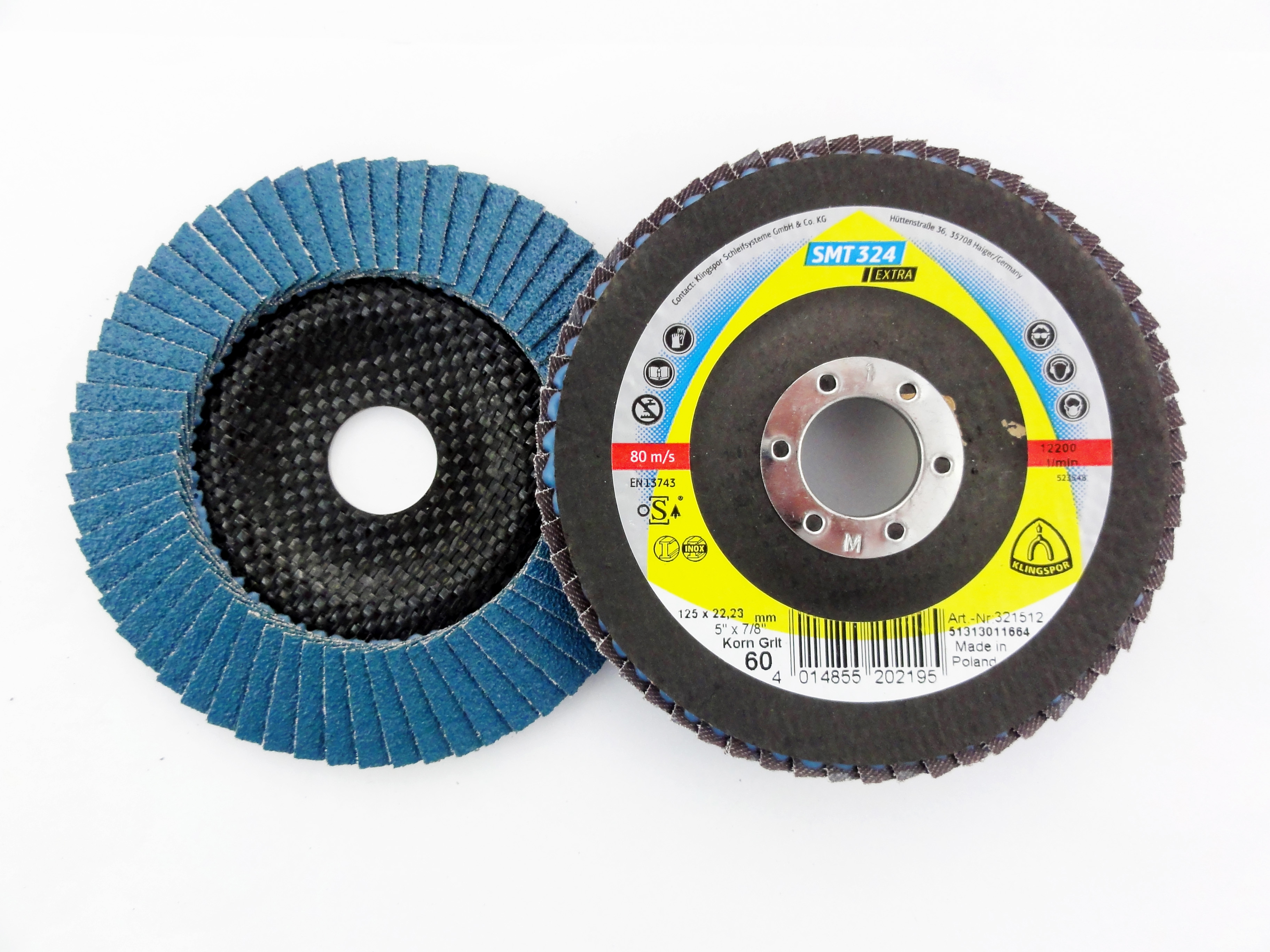 Abrasive tool called flap disc - made of strips of sand paper glued to fibreglass disc. Used with angle grinder to clean surface of metals, remove rust and old paint, etc.